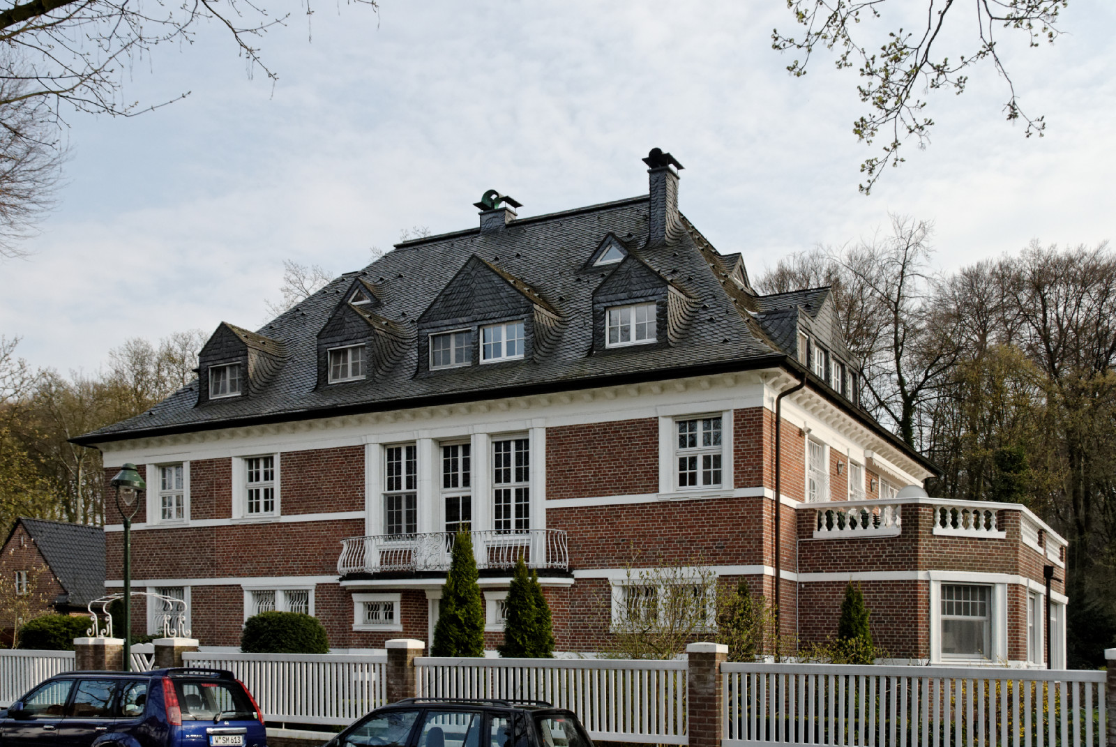 House Meliesallee 7 in Düsseldorf-Benrath, Germany